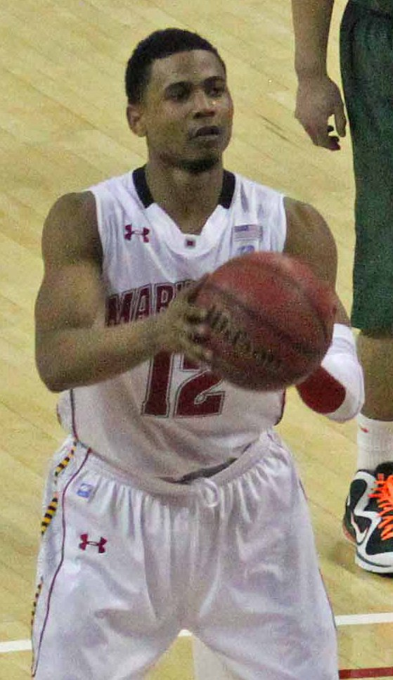 Miami vs Maryland Basketball, Comcast Center, College Park, Maryland